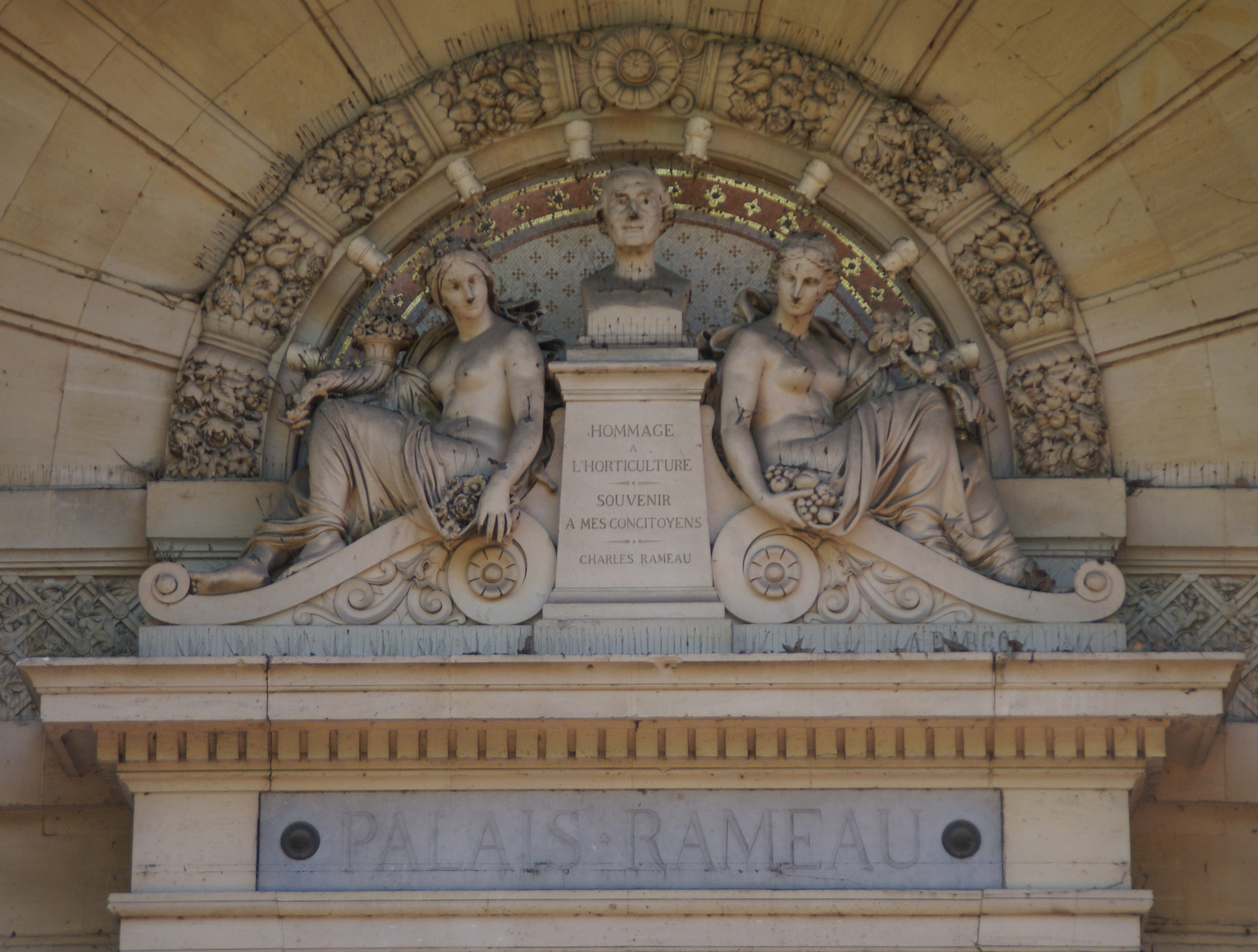 Lille (France), Palais Rameau, pediment